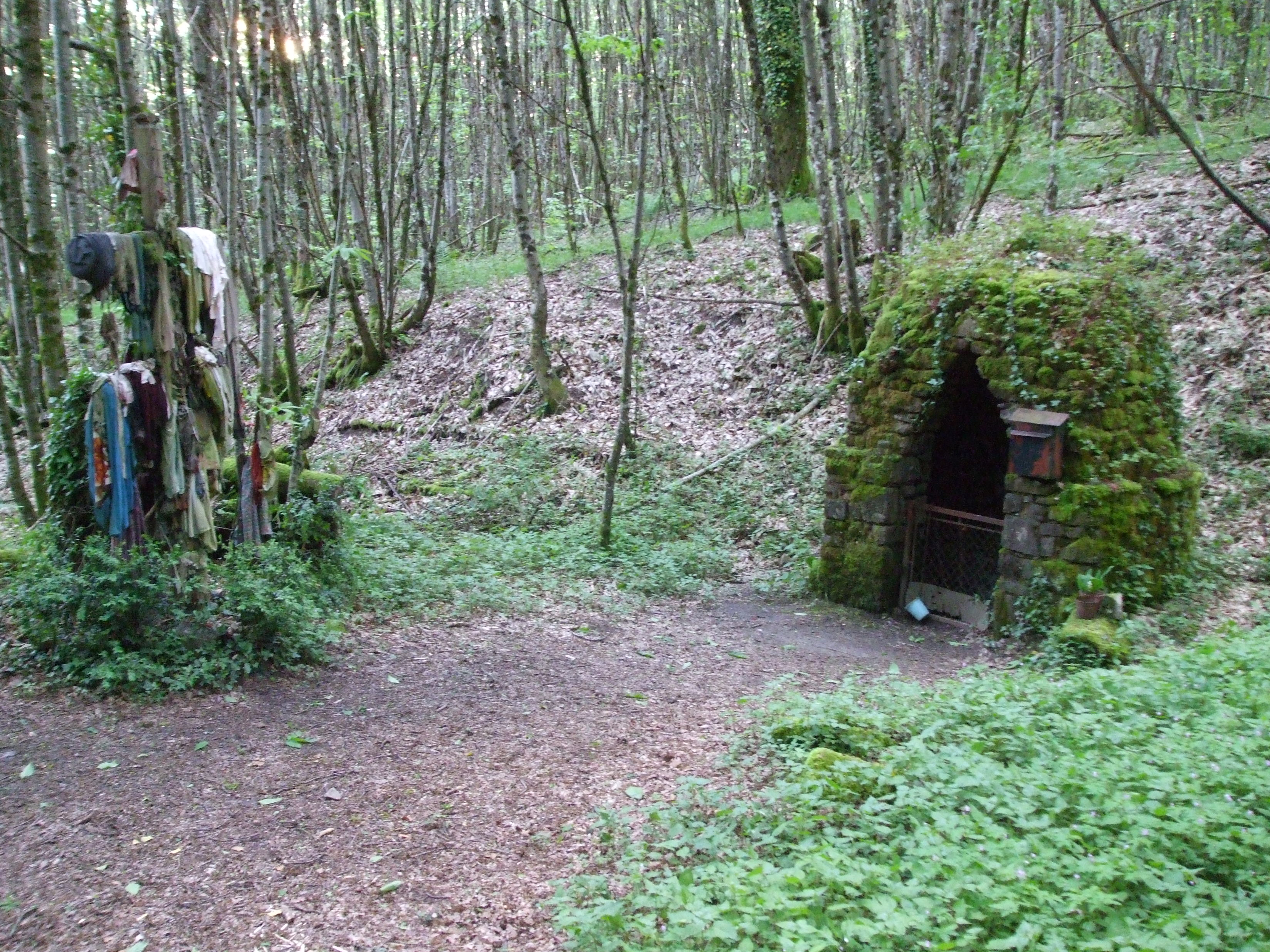 Fontain of devotion; bonne fontaine 1 of Courbefy, Bussière-Galant, Haute-Vienne, France